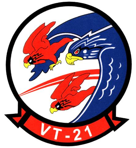 VT-21 insignia.